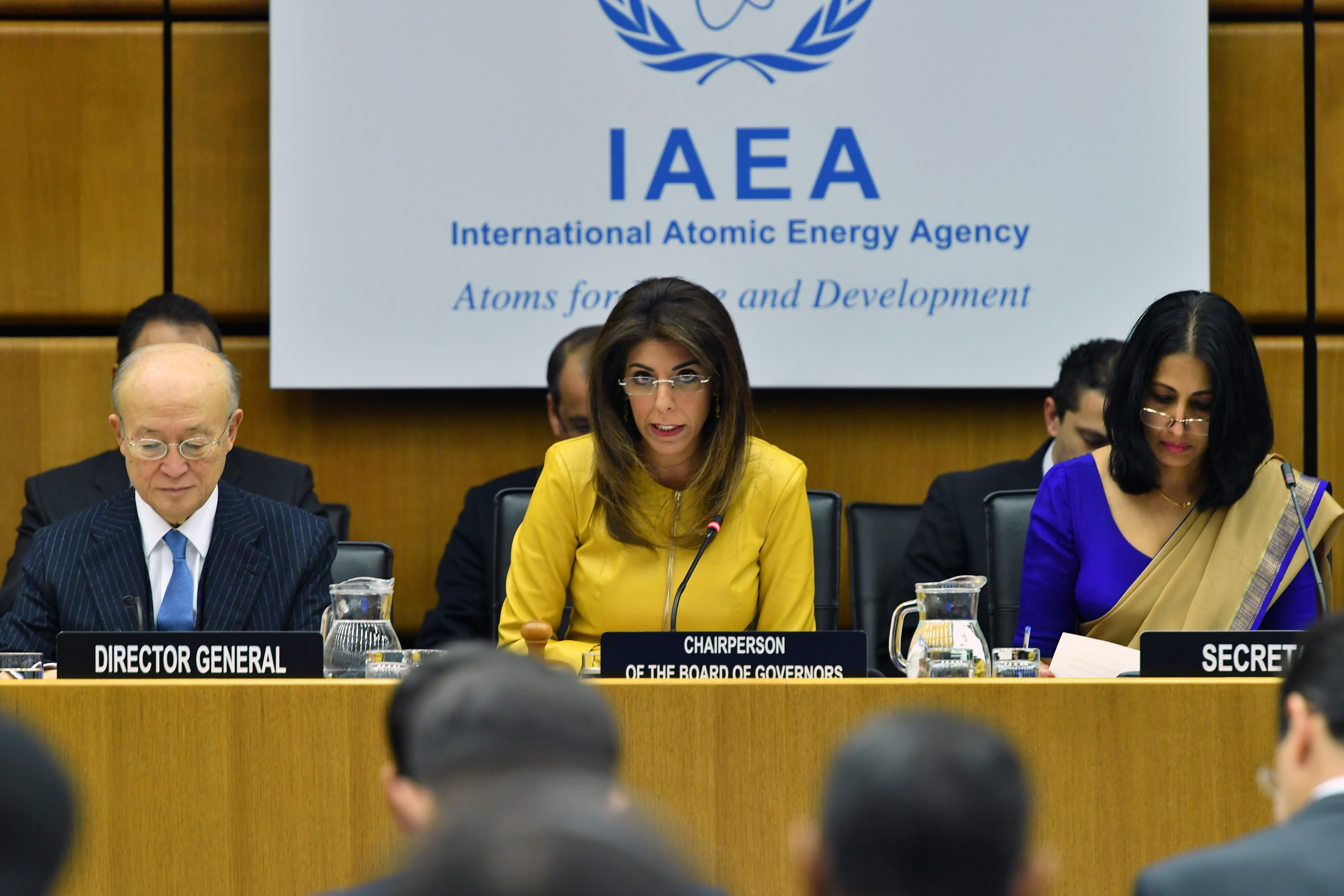 IAEA Board Chairperson Leena Al-Hadid welcomes Member States' delegates attending the 1502nd Board of Governors Meeting. IAEA, Vienna, Austria, 22 November 2018. Photo Credit: Dean Calma / IAEA